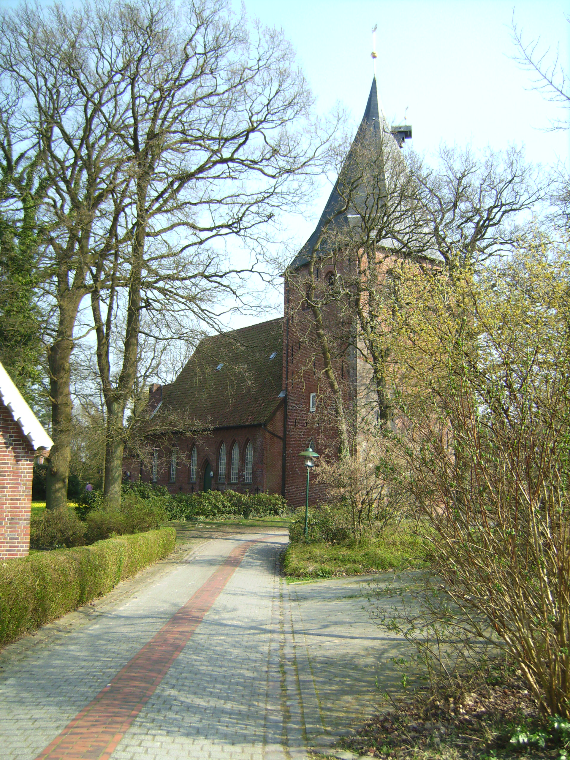 St. Marien (St. Mary) in Neuenkirchen (Land Hadeln) (Neuenkirchen, Cuxhaven), Lower Saxony, Germany, from northwest